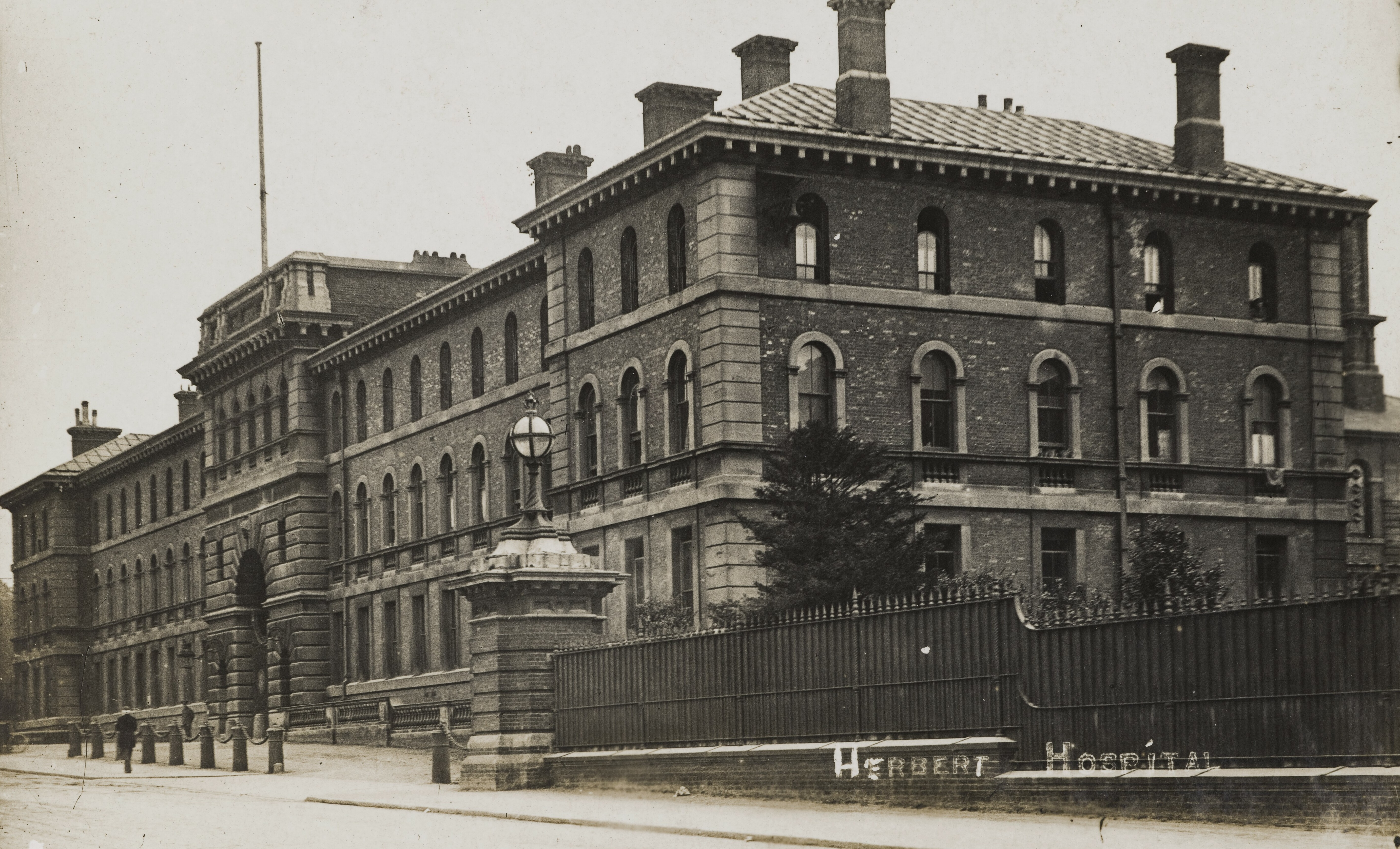 Postcard of the Royal Herbert Hospital, Woolwich. Picture of the exterior of the building. Archives & Manuscripts